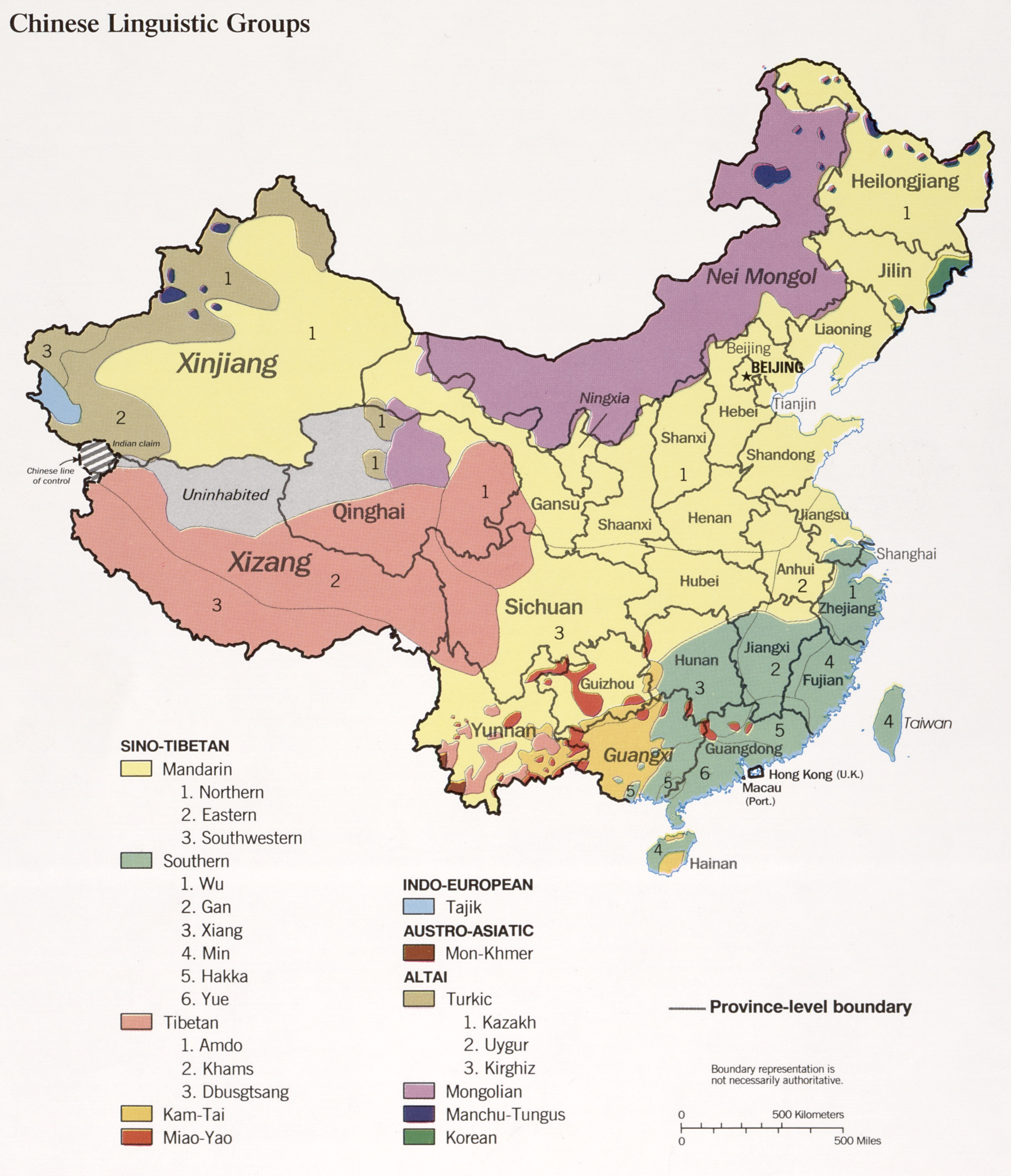 Chinese linguistic groups, 1990. The map shows the distribution of linguistic groups in China according to the historical majority ethnic groups by region. Note this does not represent the current distribution due to age-long internal migration and assimilation.